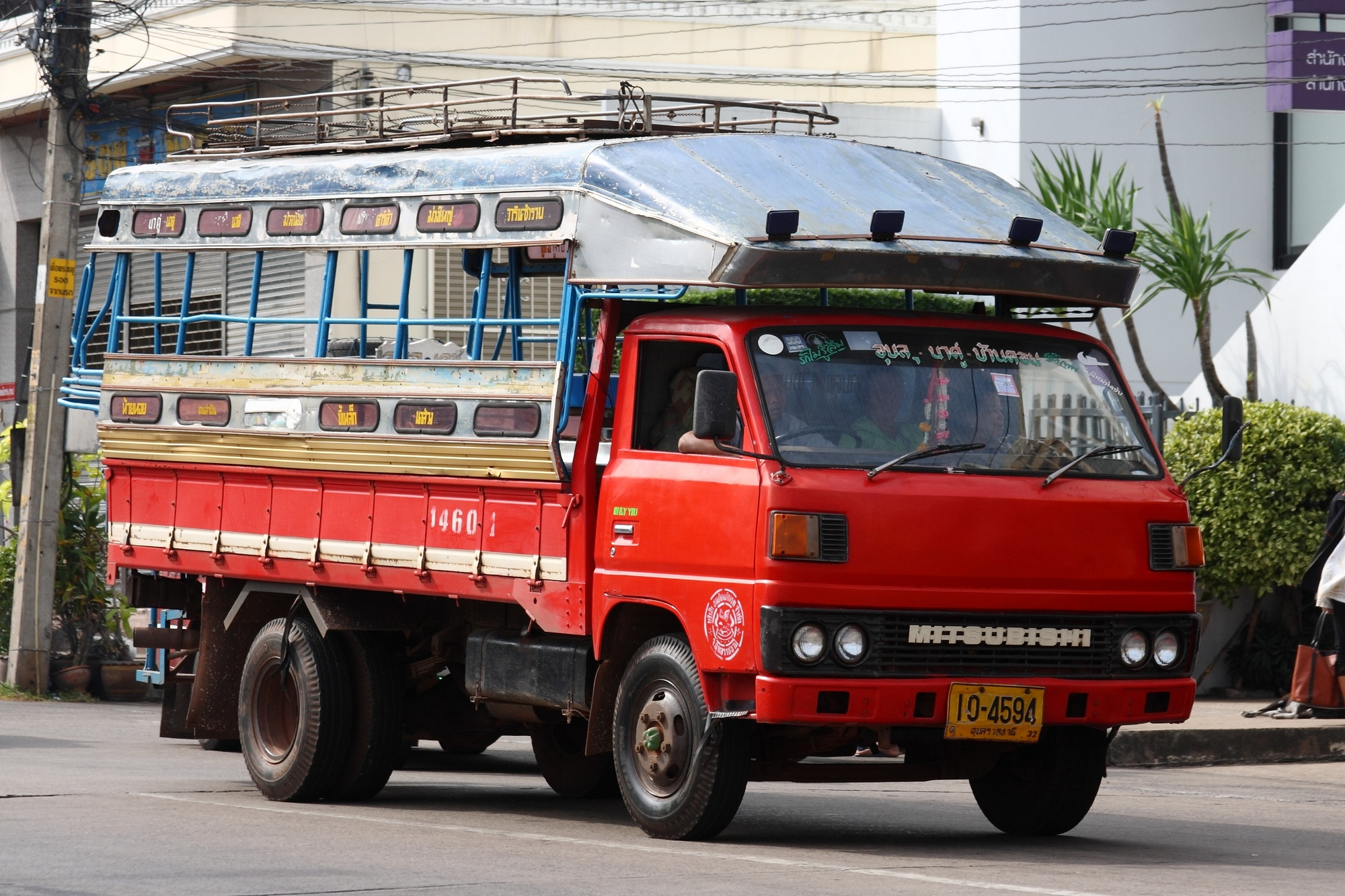 Songthaew in Warin Chamrap, Ubon Ratchathani Province, Thailand